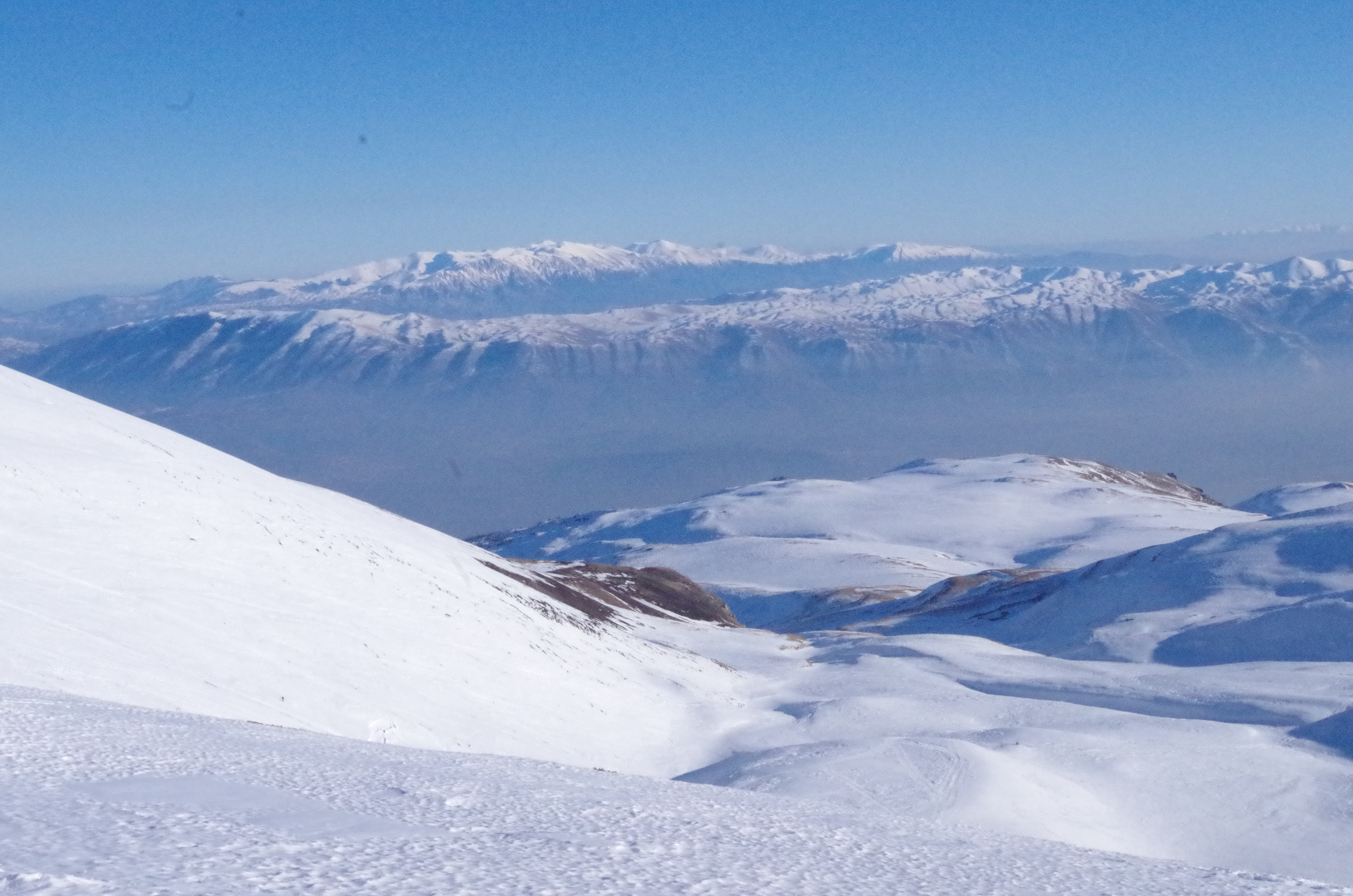 Vakaf valley and plateau on Šar Mountain with Mokra mountain massif in the background, Macedonia (In loving memory of Pero Atanasov - Crna Strela)